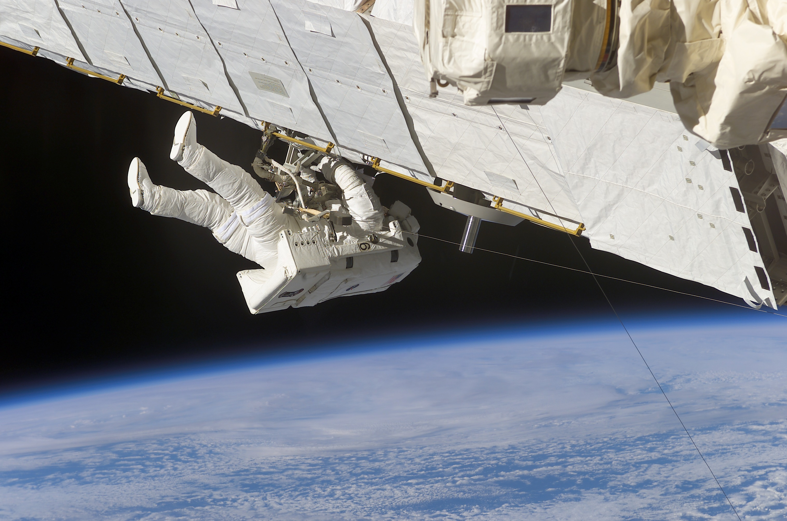 Astronaut Piers J. Sellers, STS-112 mission specialist, works on the Starboard One (S1) Truss, newly installed on the International Space Station (ISS). Astronaut David A. Wolf (out of frame), mission specialist, worked in tandem with Sellers during the spacewalk. STS-112�s first session of extravehicular activity (EVA) lasted 7 hours and 1 minute.